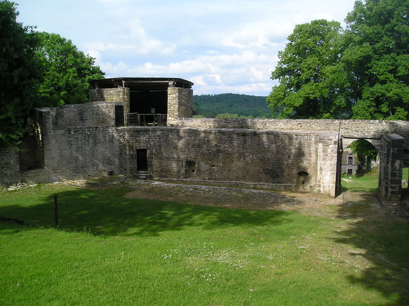 Château Lafauche